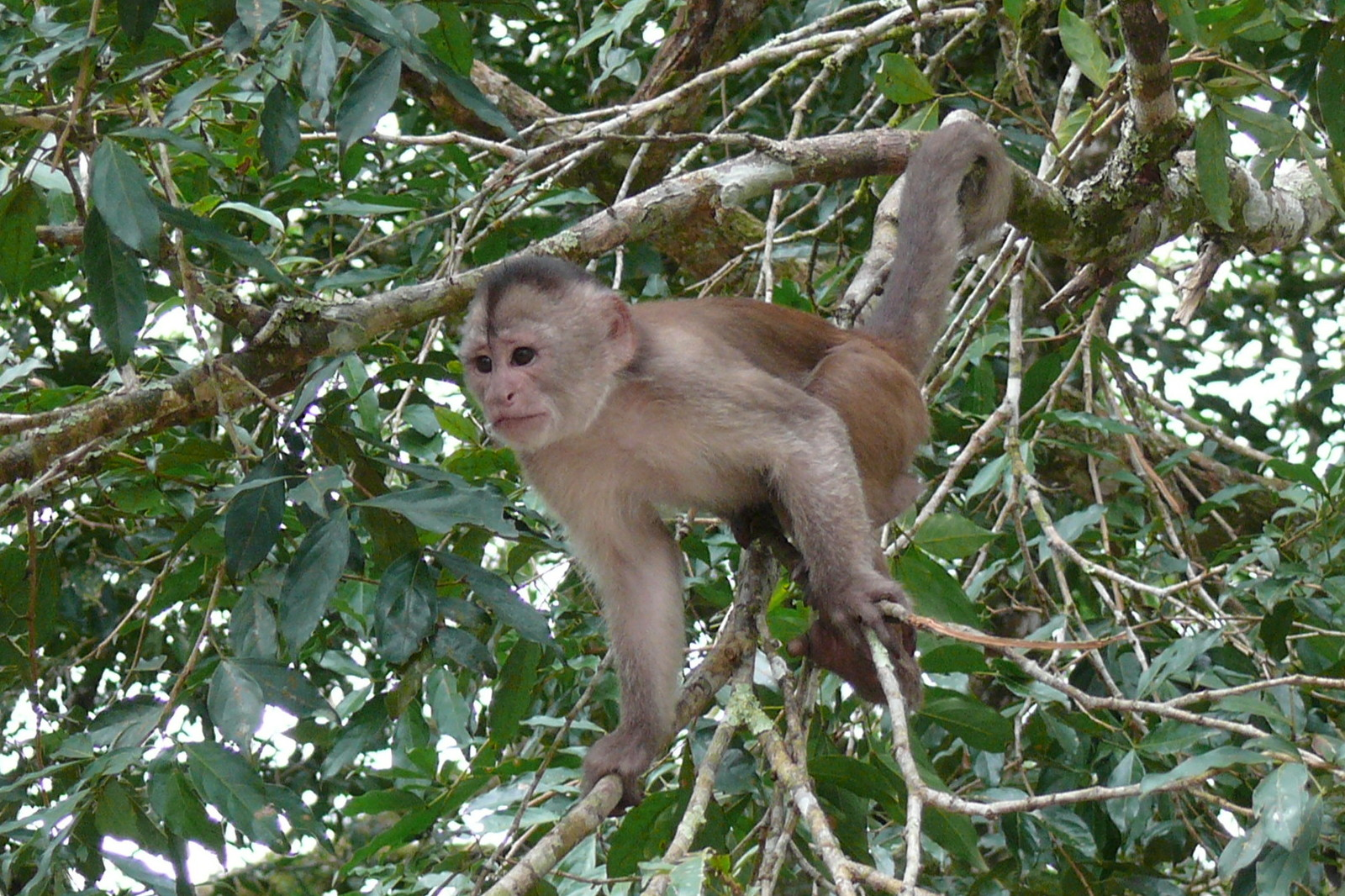 Marañon White-fronted Capuchin or Peruvian White-fronted Capuchin (Cebus yuracus)